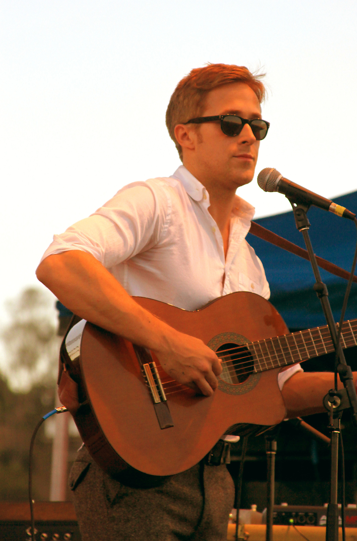 Dead Man's Bones FYF 2010